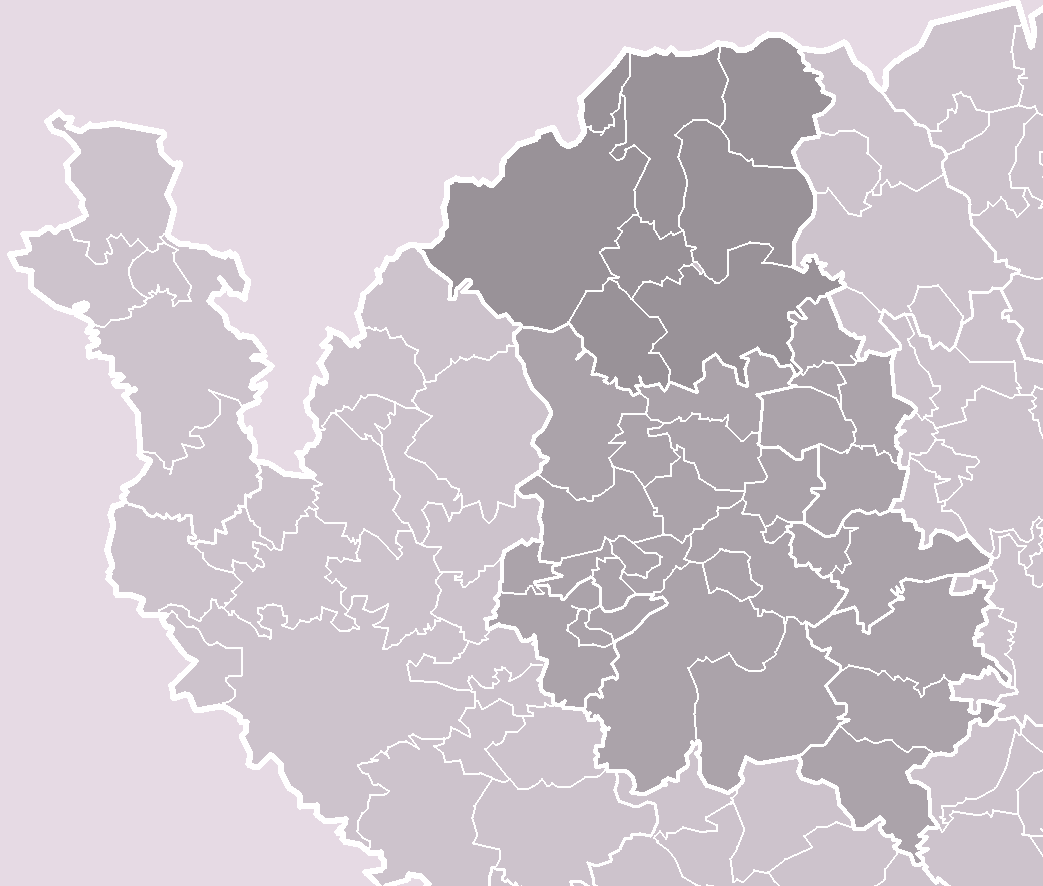 Location of administrative area of Kraslice as a Municipality with Extended Competence within Sokolov District. Darker grey in northern part of the district represents MEC area of Kraslice, remaining lighter grey part in the centre and the south represents MEC area of Sokolov. White lines of variable thickness show boundaries of municipalities, administrative areas, districts, regions and countries.